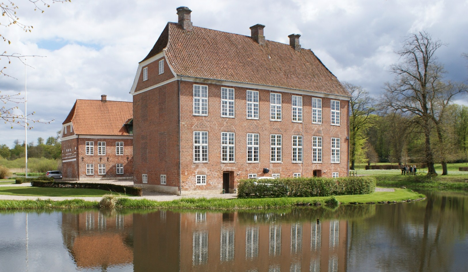 Gram Castle